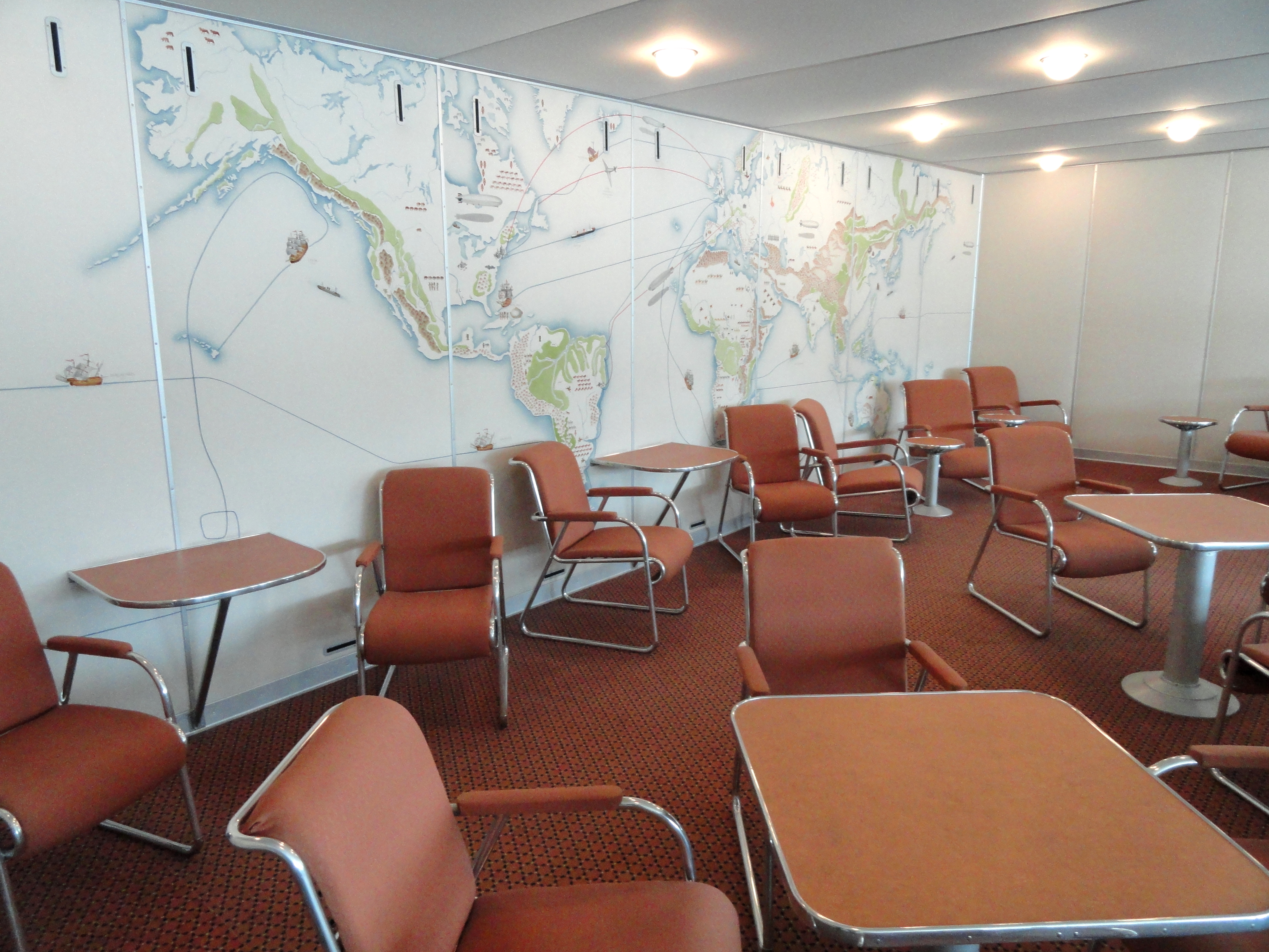 Cabin lounge of the Zeppelin in the Zeppelin Museum Friedrichshafen, Seestraße 22, Friedrichshafen, Germany. Photography was permitted in the museum, without restriction.